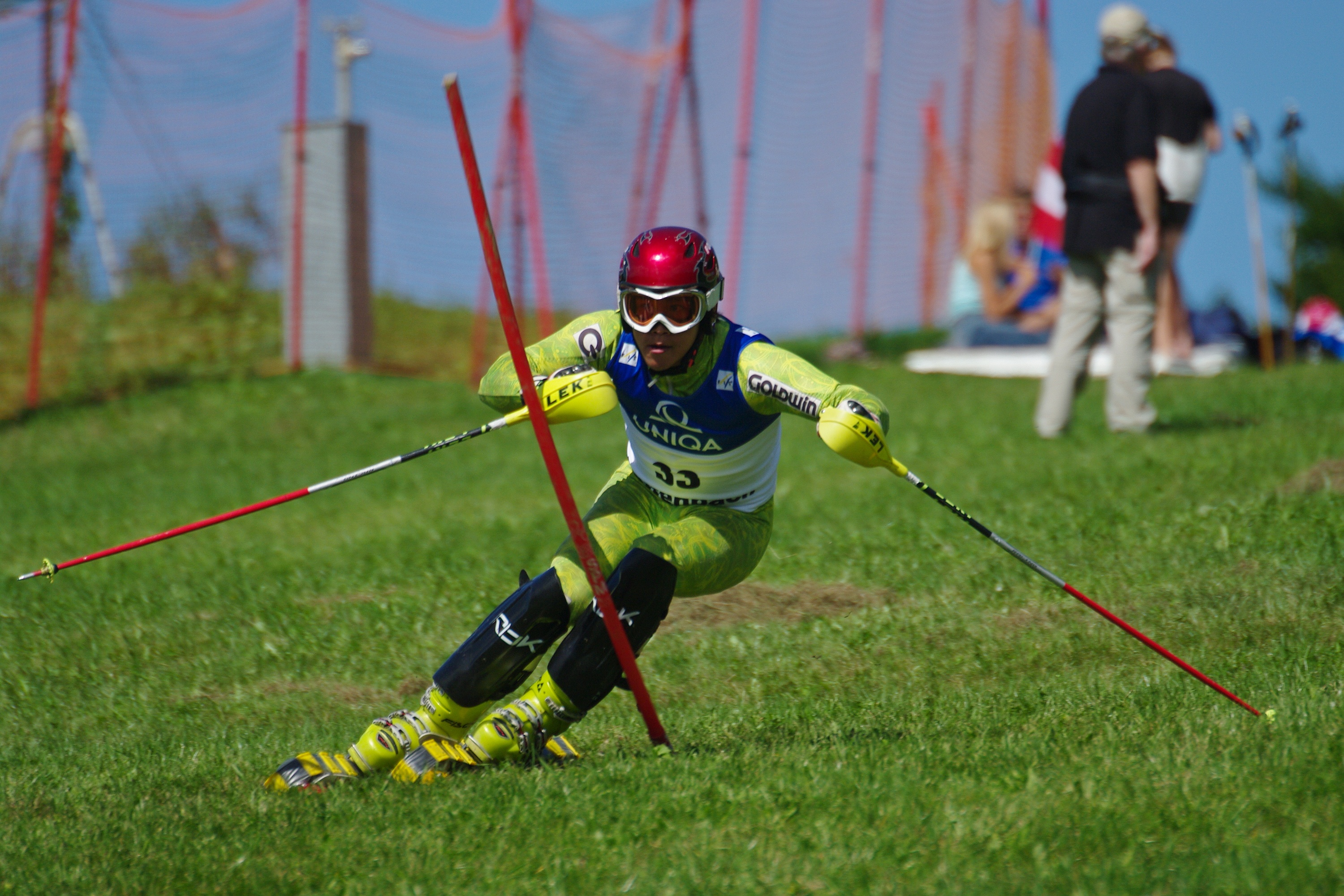 Japanese grass skier Daichi Shintani in the second Slalom run at the 2009 Grass Skiing World Championships in Rettenbach, Austria.